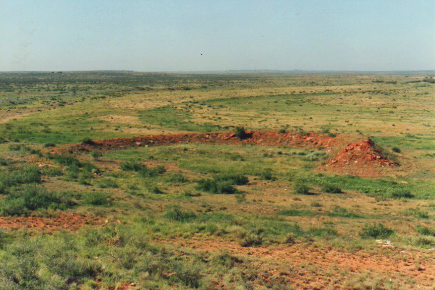 Photograph of the remains of Robert Smithson's Amarillo Ramp in 1989